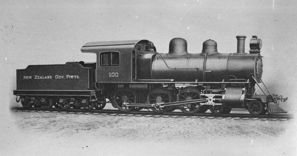 Ub locomotive NZ. Part of A P Godber Collection, Alexander Turnbull Library.